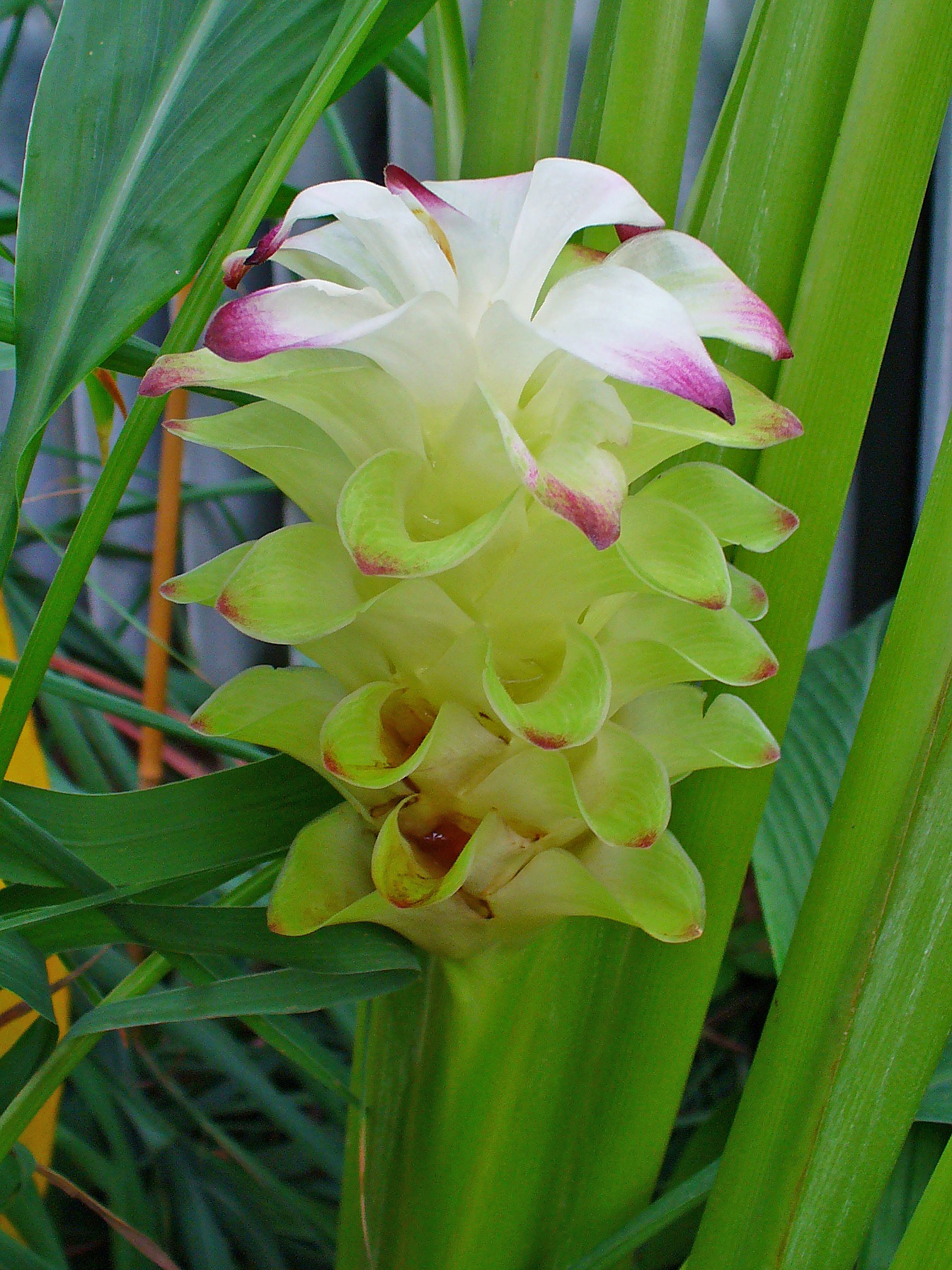 Curcuma longa, Zingiberaceae, Turmeric, Indian Saffron, inflorescence; Botanical Garden KIT, Karlsruhe, Germany. The scalded and dried rootstocks are used in homeopathy as remedy: Curcuma longa (Curc-l.)